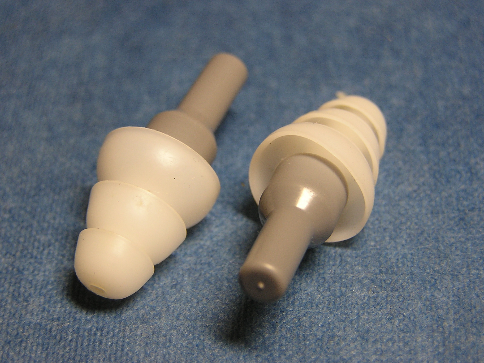 Pair of 'Aearo' musician's earplugs on blue background. 20 dB flat attenuation over audio band. Taken Light current 21 May 2006